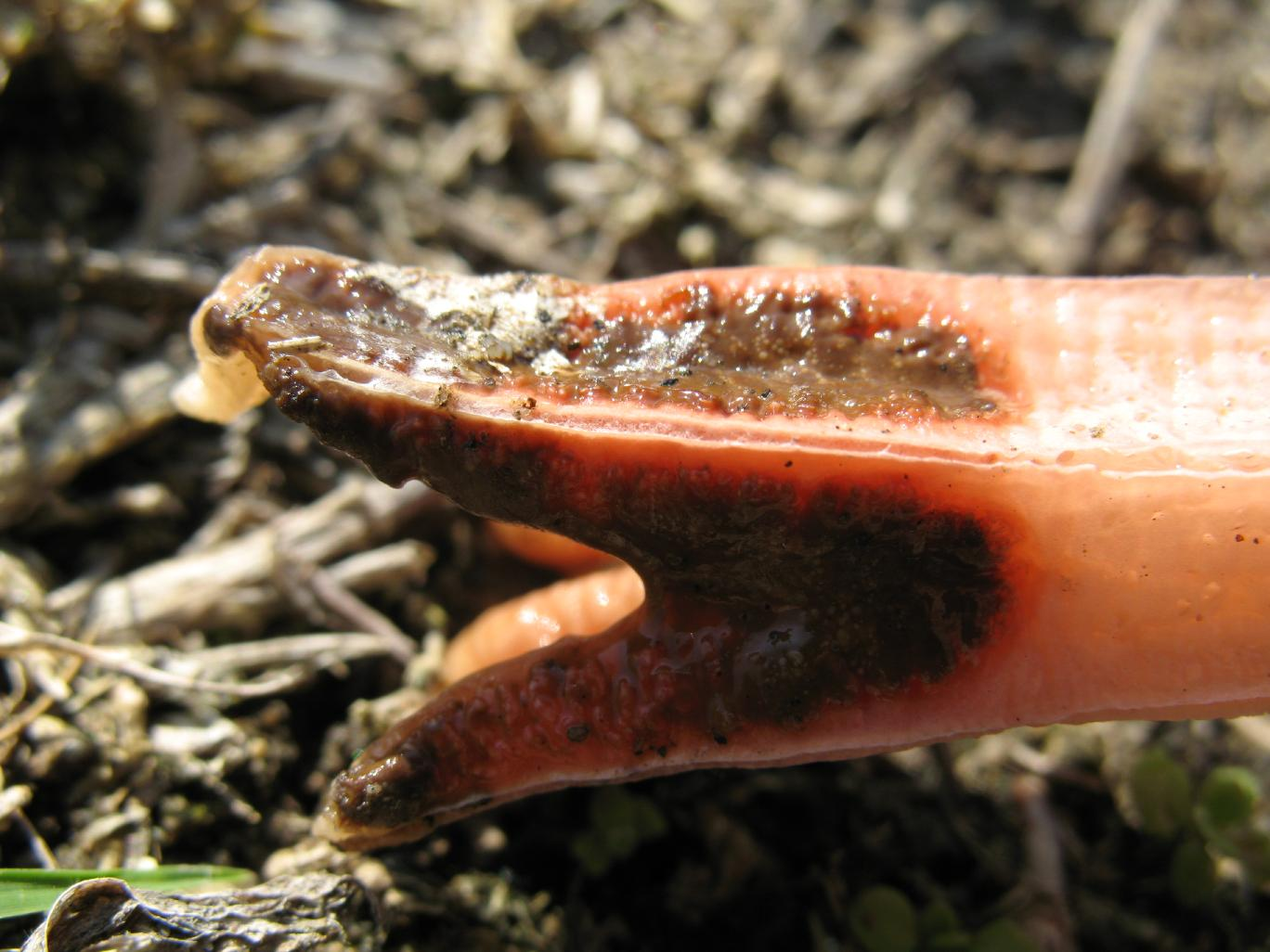 Close-up of the apex of Lysurus mokusin (Cibot: Pers.) Fries showing separating "arms". Specimen found in Burbank, Los Angeles Co., California, USA.